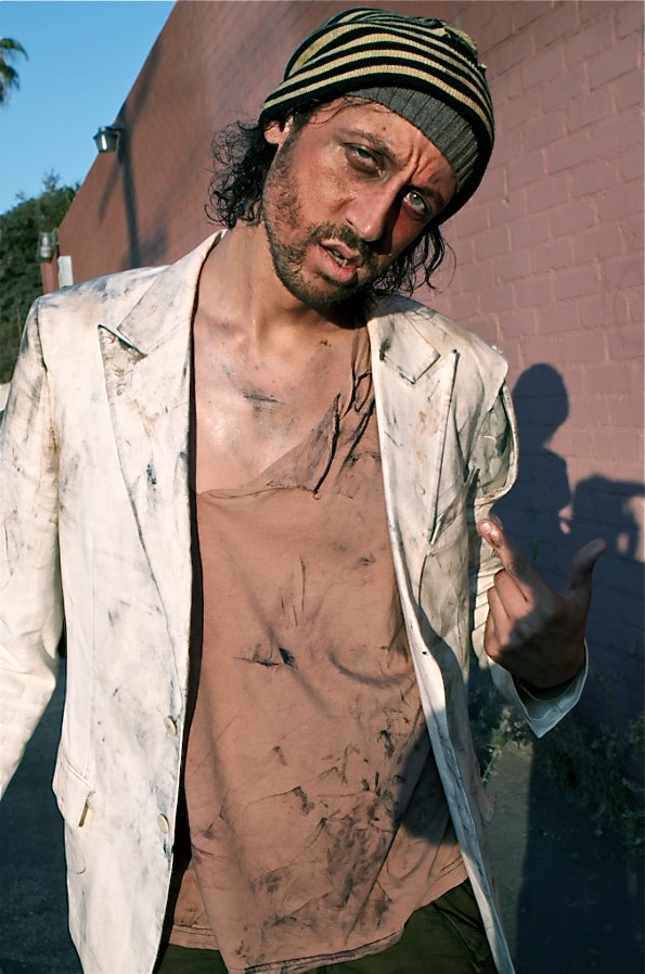 Santino Rice : he had a Job interview the followin monday ....